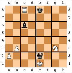 A sample position in a game of grid chess. The original image was made by User:Camembert using ChessBase 6 and Photoshop, and released into the public domain. Changed image was made by User:ZeroOne using a chess diagram screenshot as a base.